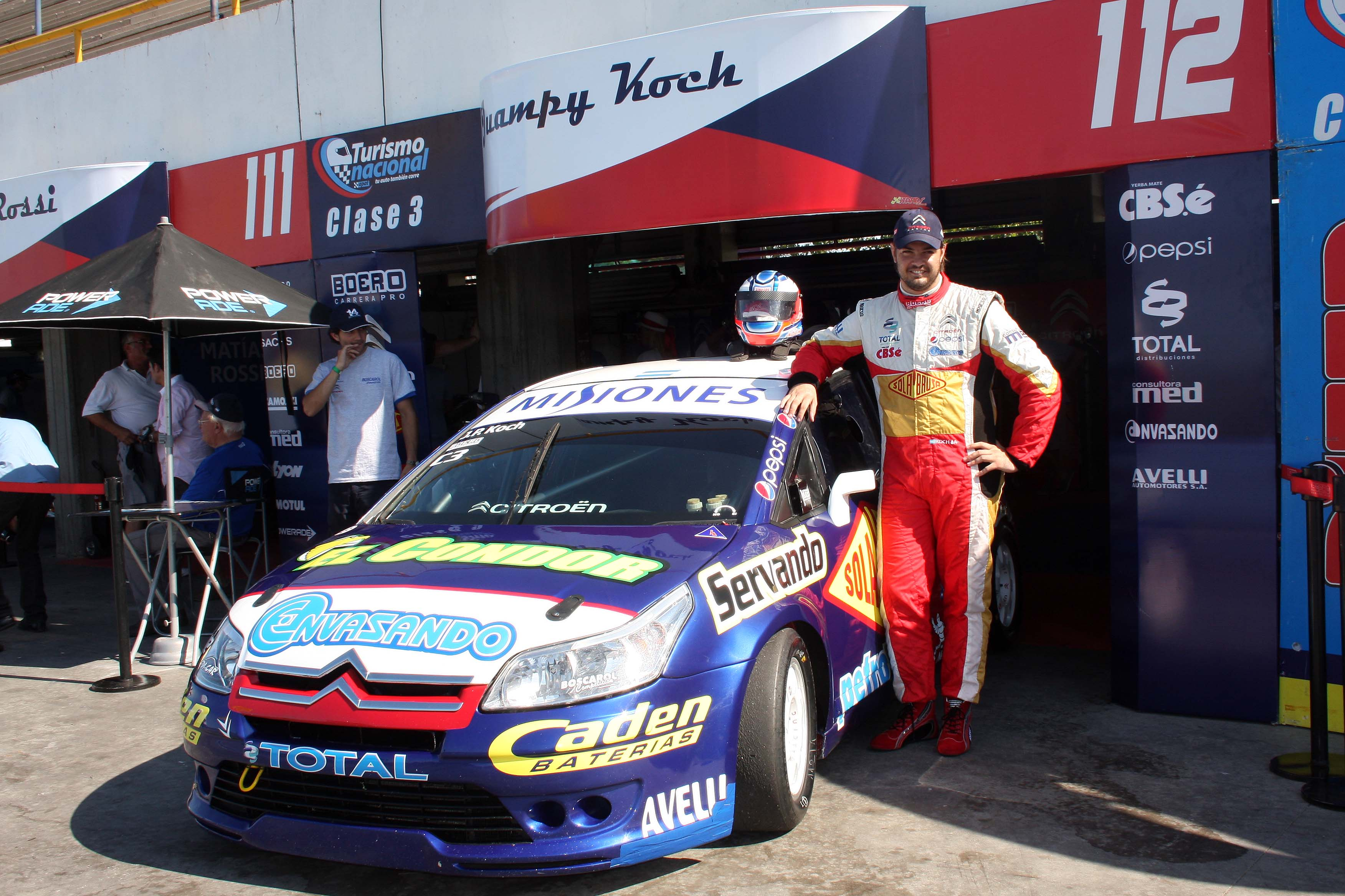 Juan Pablo "Juampy" Koch, racecar driver from Leandro N. Alem, Misiones, Argentina.